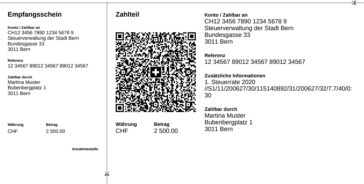 Exampe of a QR invoice as used in Switzerland since 1 July 2020